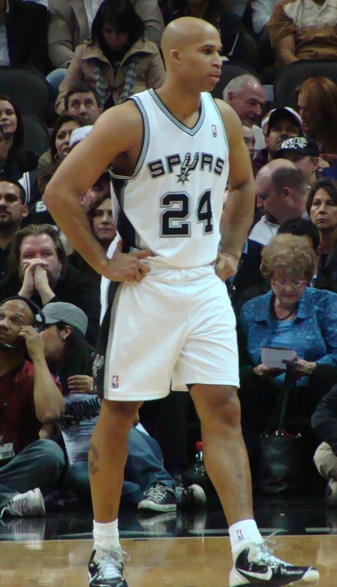 Richard Jefferson of the San Antonio Spurs, during the Spurs-Nuggets match on 12-22-2010 in San Antonio, TX.